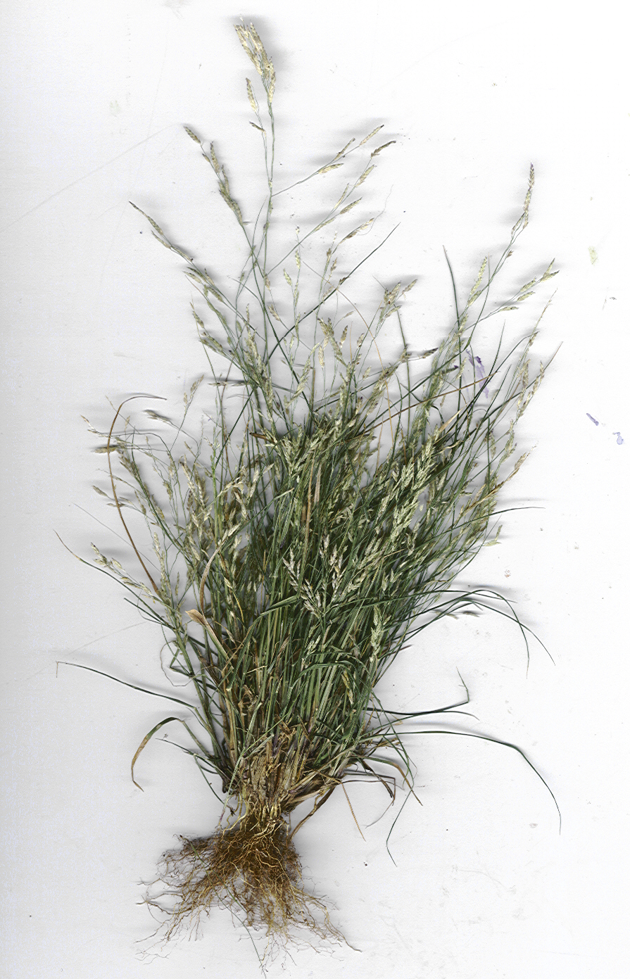 Eragrostis pectinacea (plant). Location: Maui, Kihei boatramp